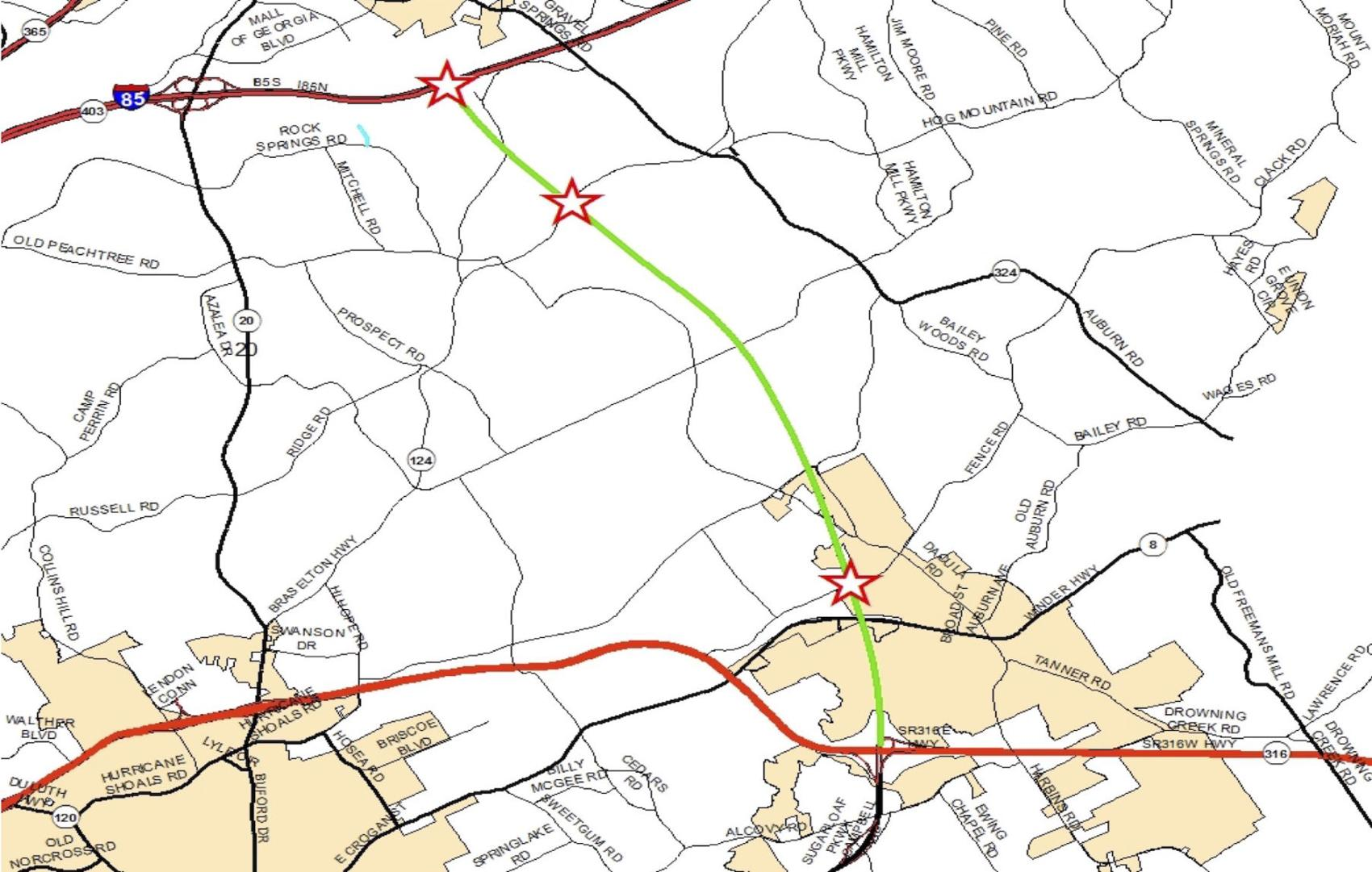 This map shows the anticipated route that the Sugarloaf Parkway extension Phase II project will take. The middle star on the highlighted route shows where an interchange at Braselton Highway is expected to be located. County commissioners agreed to pay a combined amount of nearly $1.5 million to the owners of two pieces of property that are located where the interchange will be built. (Photo: Gwinnett County)